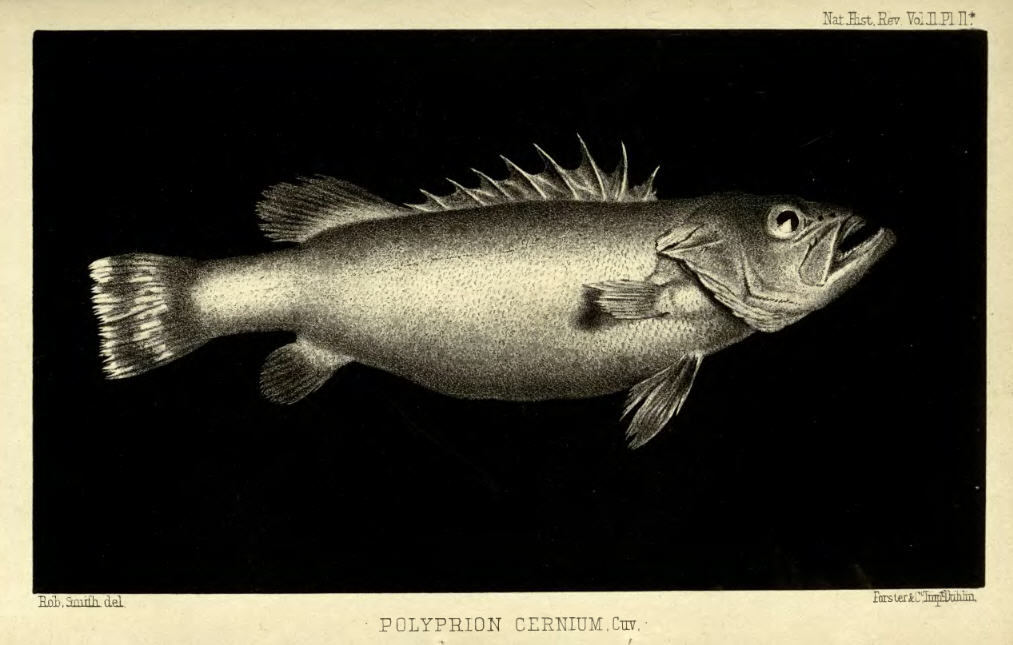 Polyprion americanus, Synonym: P. cernium